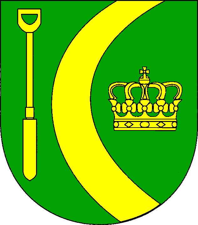 Coat of arms of the municipality Christiansholm in Schleswig-Holstein, Germany.